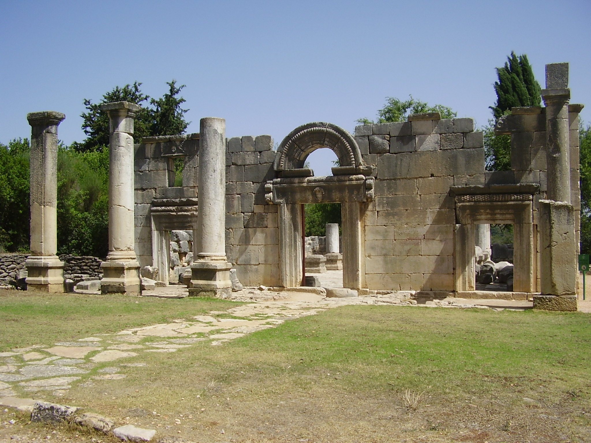 the ancient synagogue in bar\'am